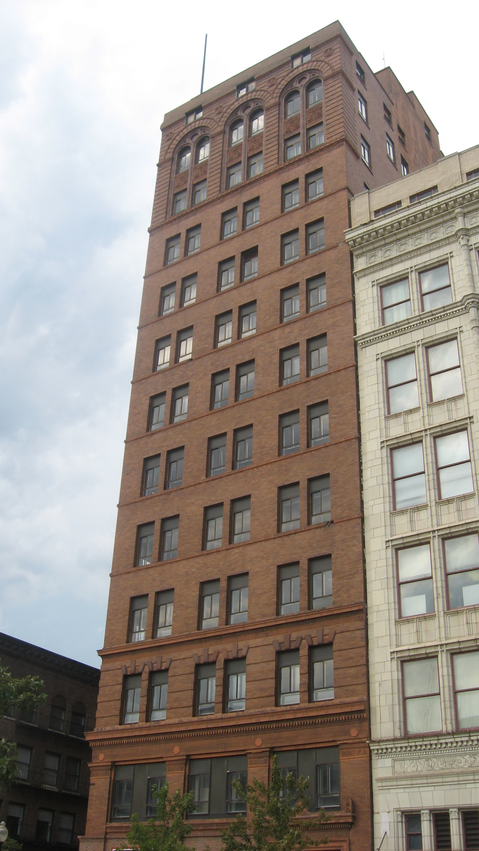 Front of the Wick Building, located at 34 W. Federal Street in downtown Youngstown, Ohio, United States. Built in 1907, it is listed on the National Register of Historic Places.